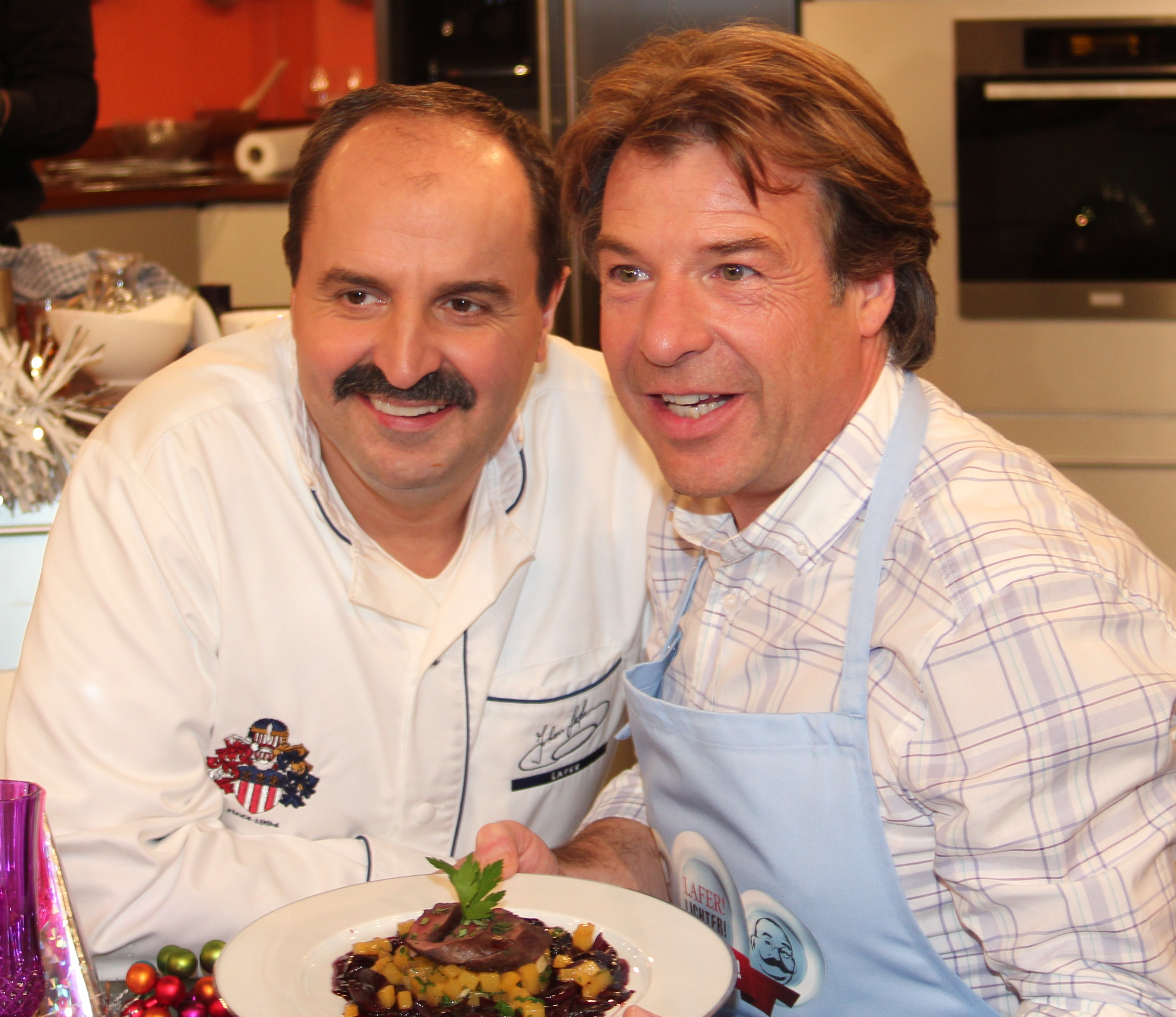 Pop singer Patrick Lindner